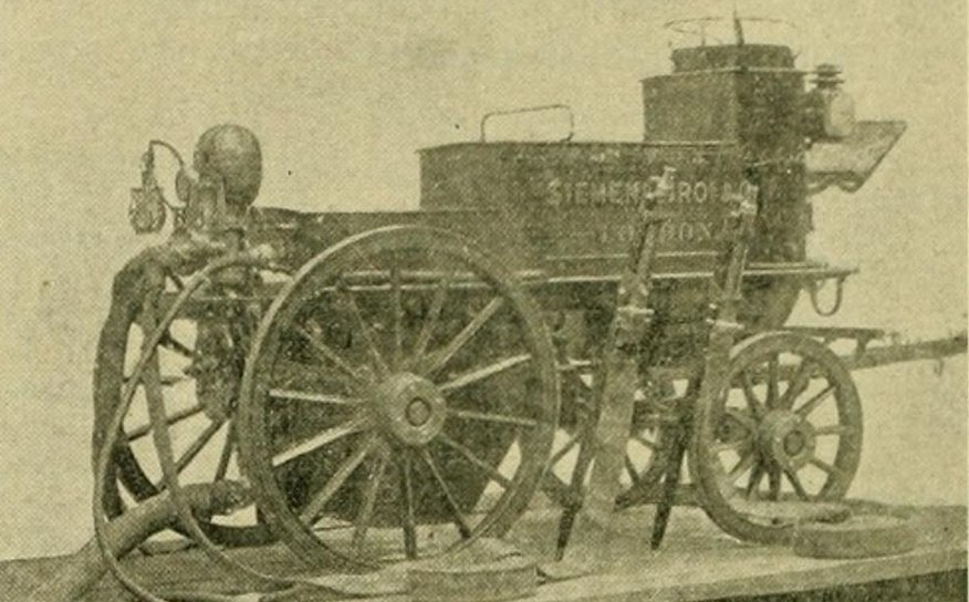 Siemen electric fire engine